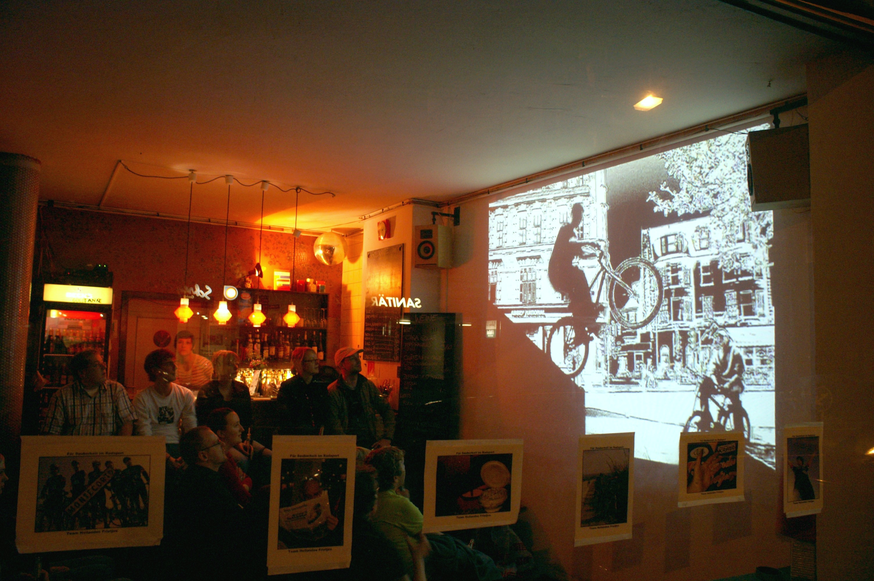 First International Cycling Film Festival's official press foto. The picture shows the first venue of the ICFF, the Club "Goldkante" in Bochum. On the screen the Scottish film "accomplish" from Chas Nairn.